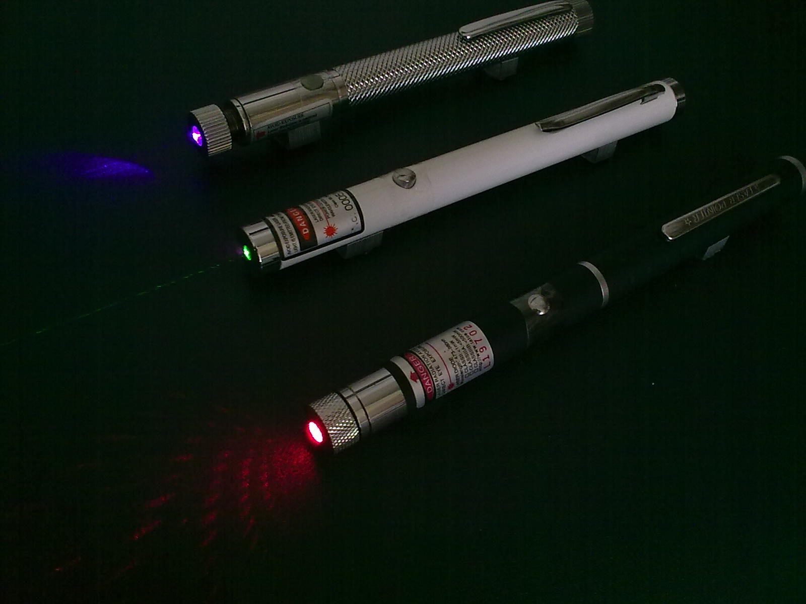 Laser pointer pens Star-projected Red laser (650nm 100mW) Fixed-focus Green laser (532nm 50mW) Adjustable-focus Violet laser (405nm 150mW)